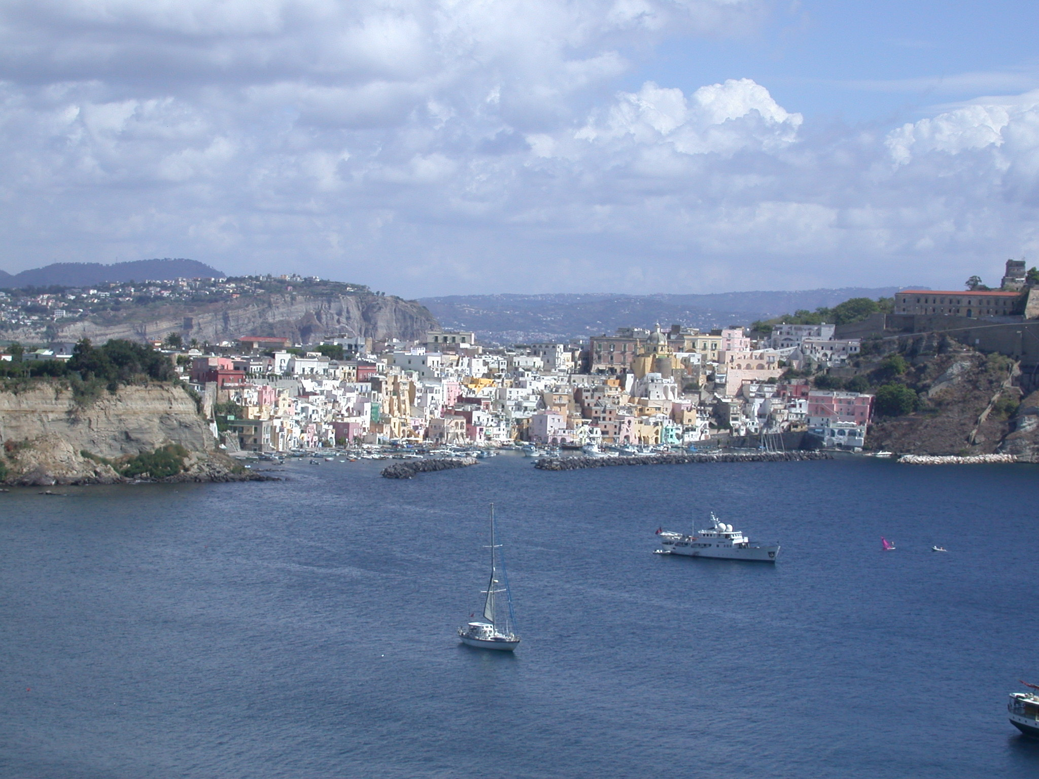 Italy - island of Procida - Little harbour of Corricella. Wiew from Punta Pizzaco.